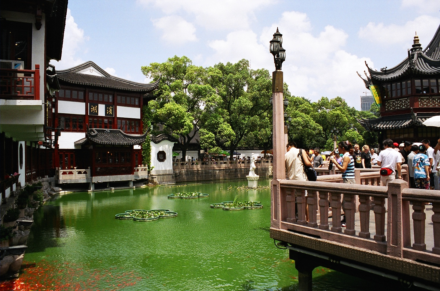 The Chenghuang Miao (City God Temple) in Shanghai